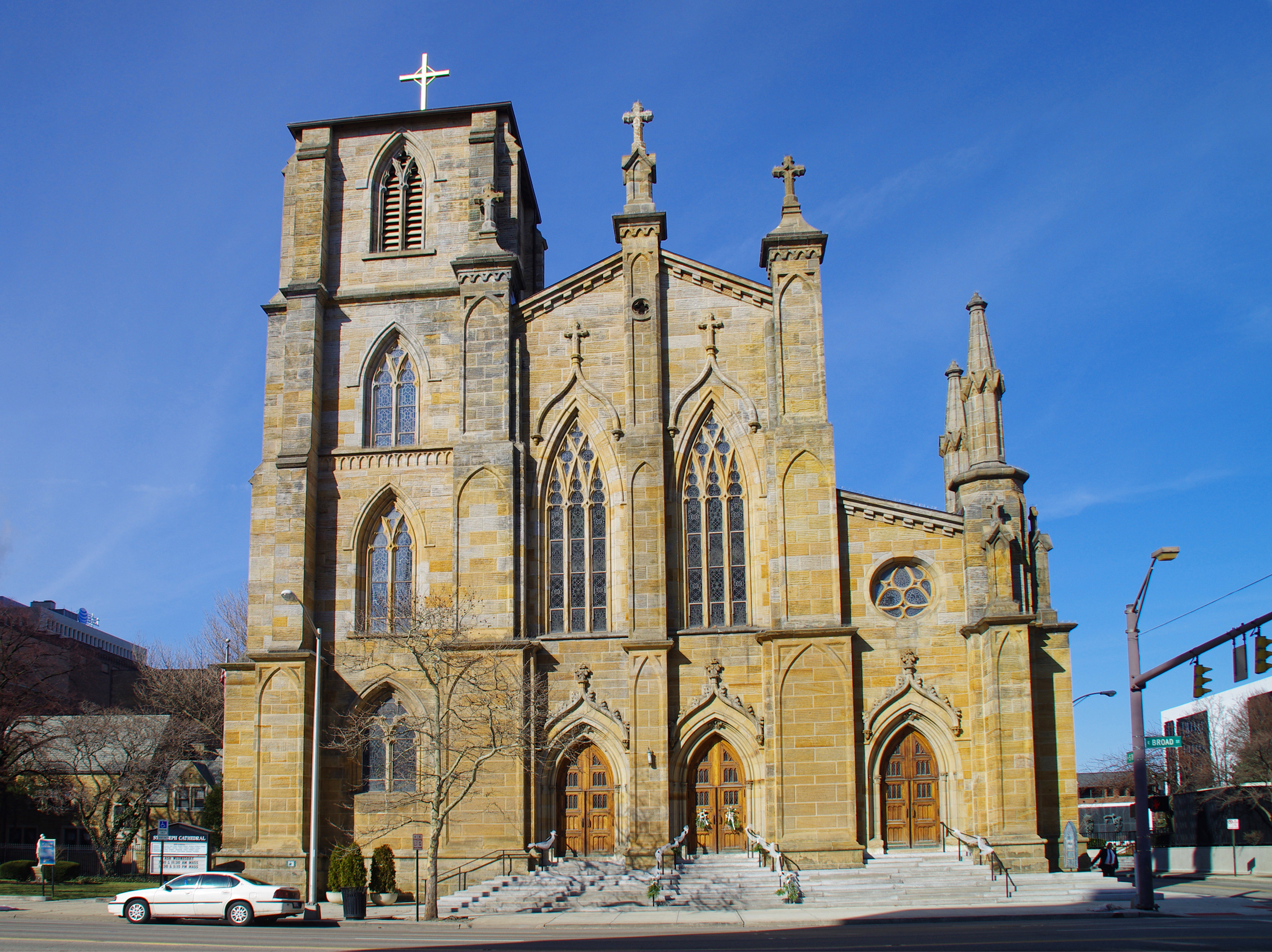 St. Joseph Cathedral, Roman Catholic Diocese of Columbus